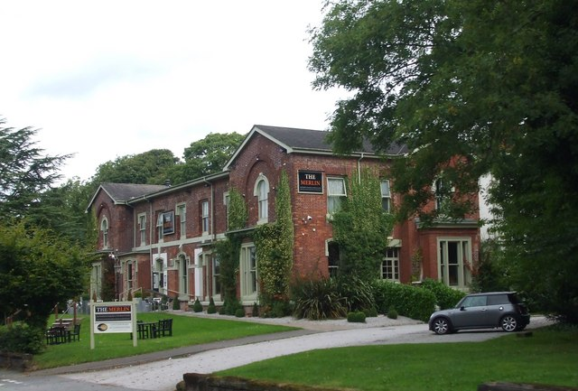 The Merlin Restaurant, Alderley Edge